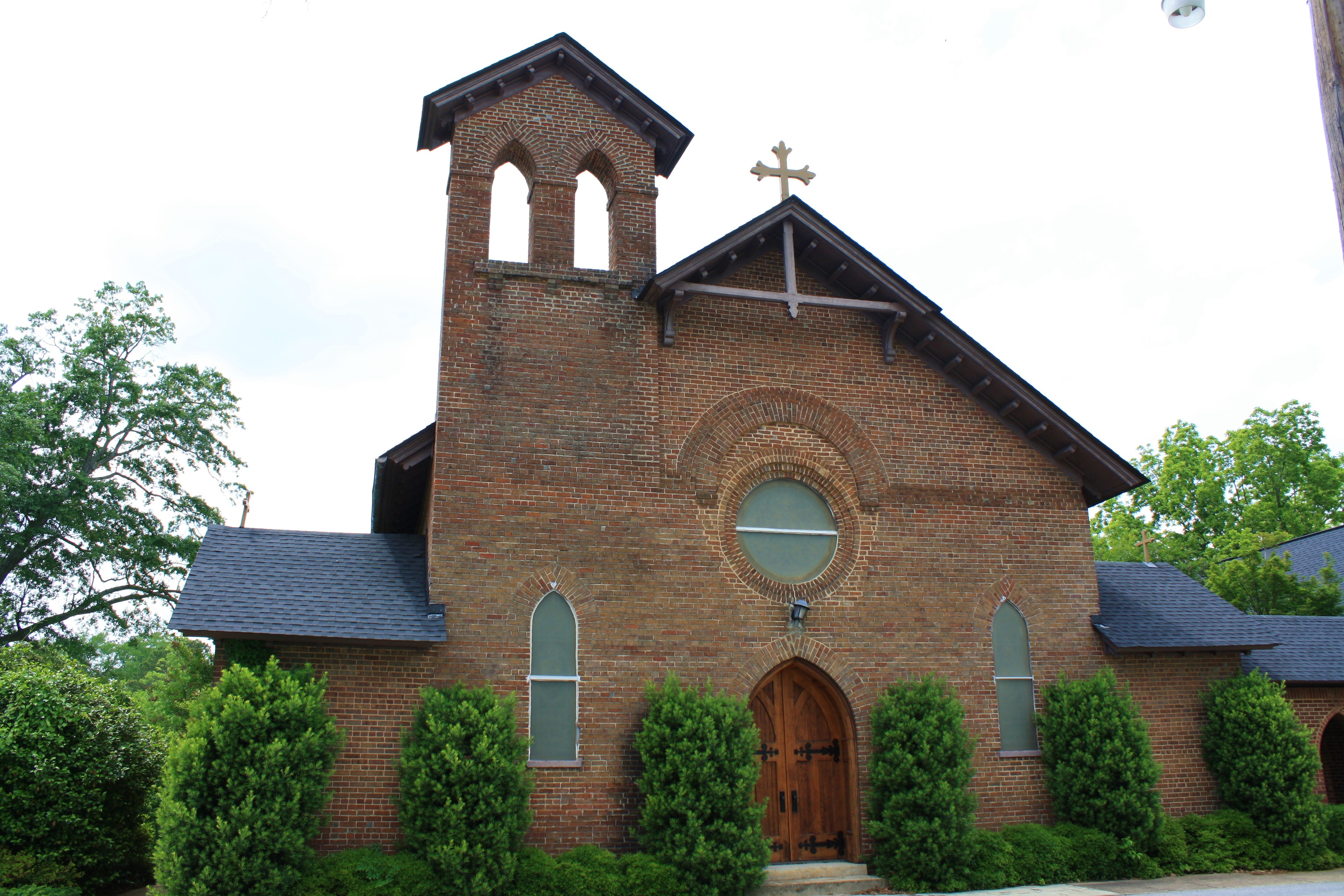 St. Paul's Episcopal Church in Greensboro, Alabama, completed and consecrated in 1843.